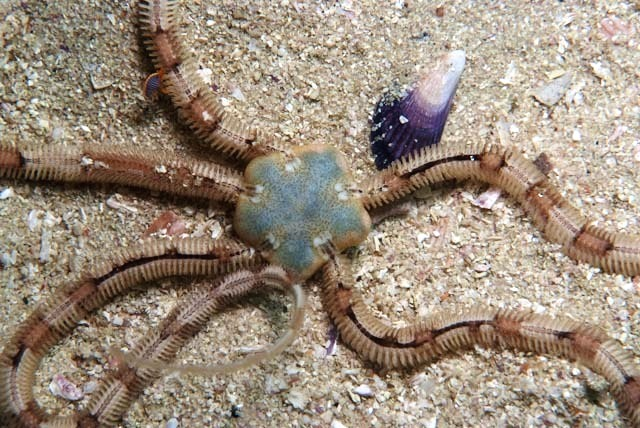 equal-tailed brittlestar (Amphiura capensis). City of Cape Town, WC, ZA